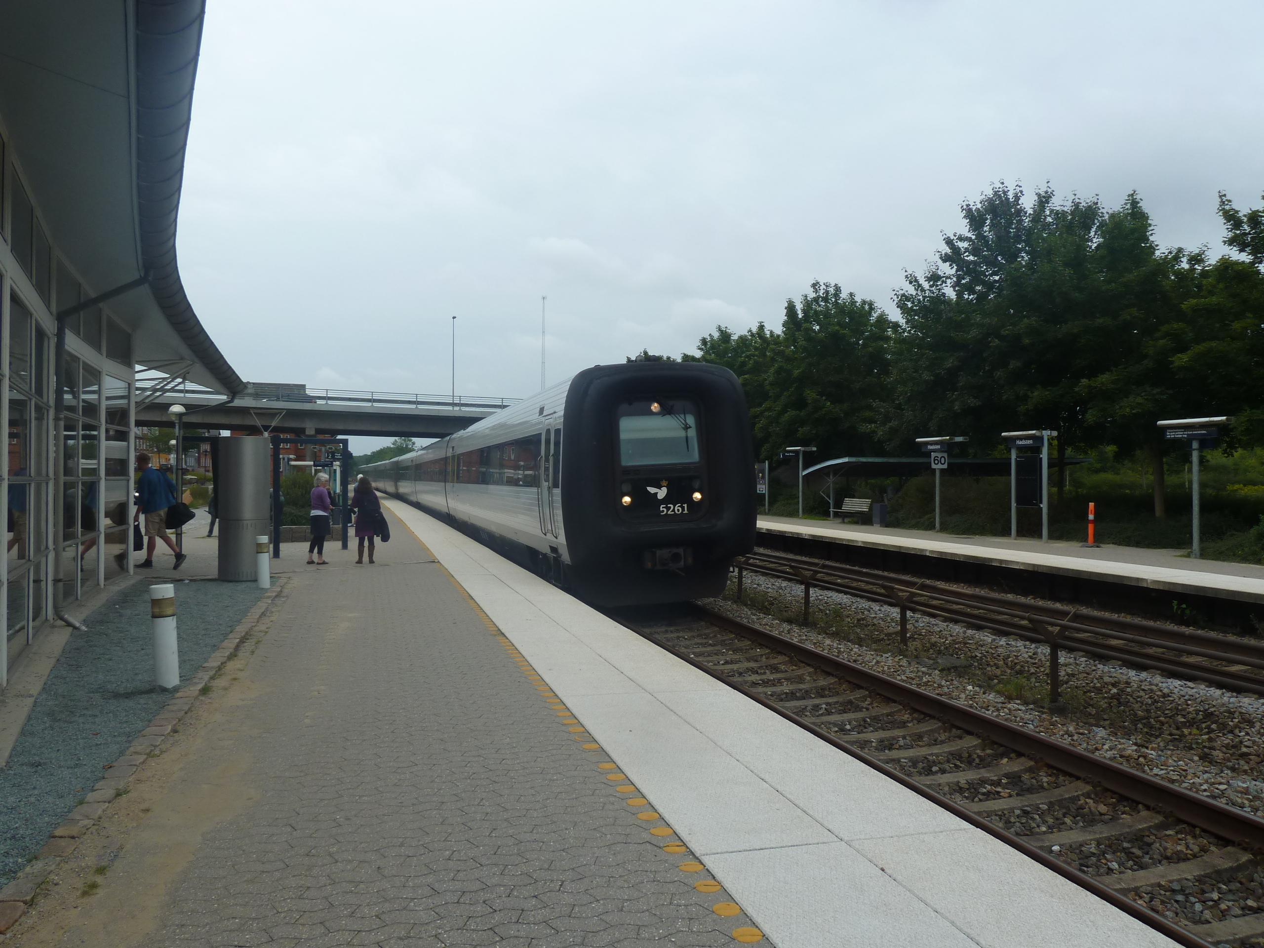 Diesel multiple unit IC3 61 in Hadsten in Denmark.